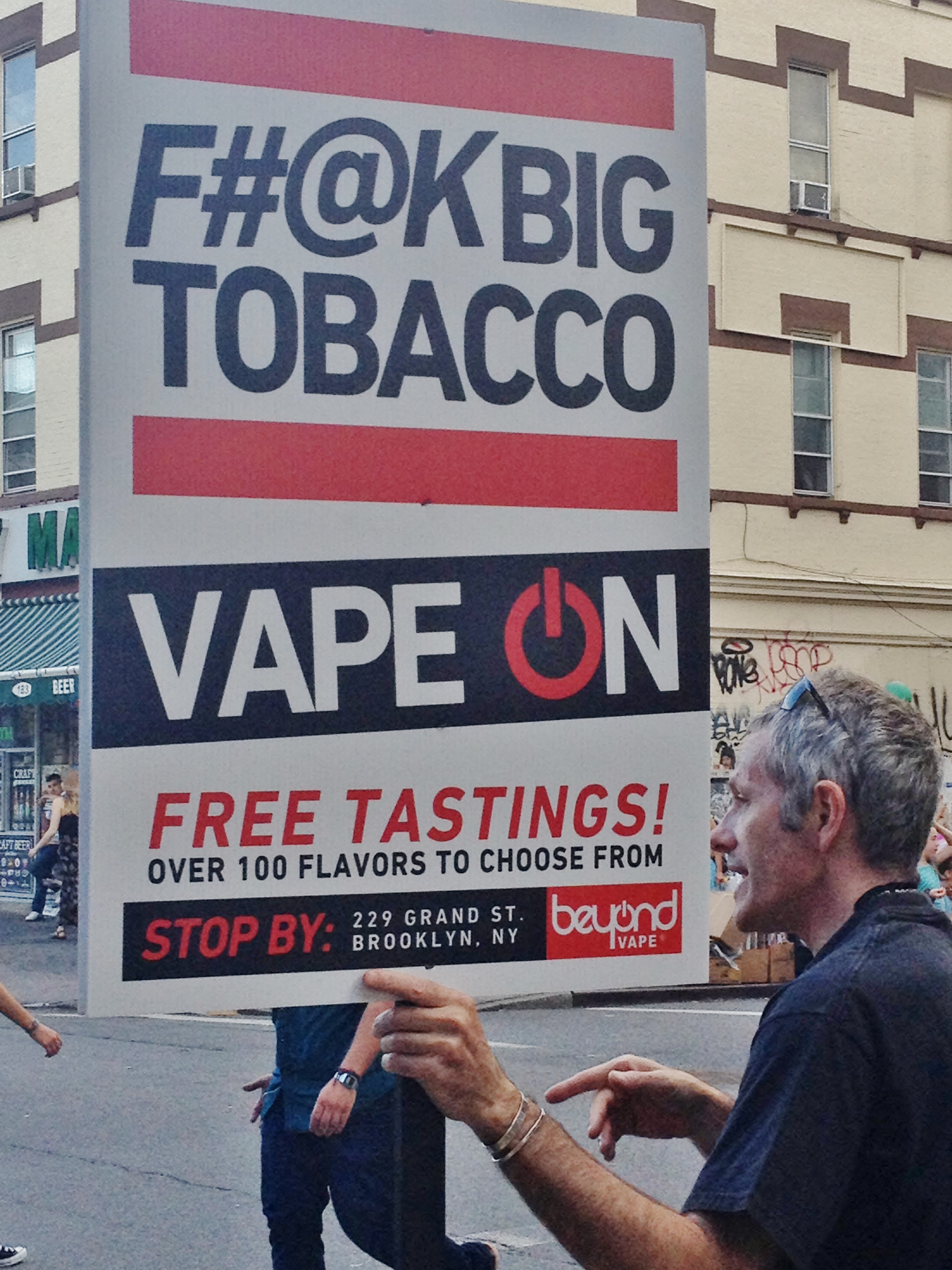 Spotted on Bedford Ave., Williamsburg